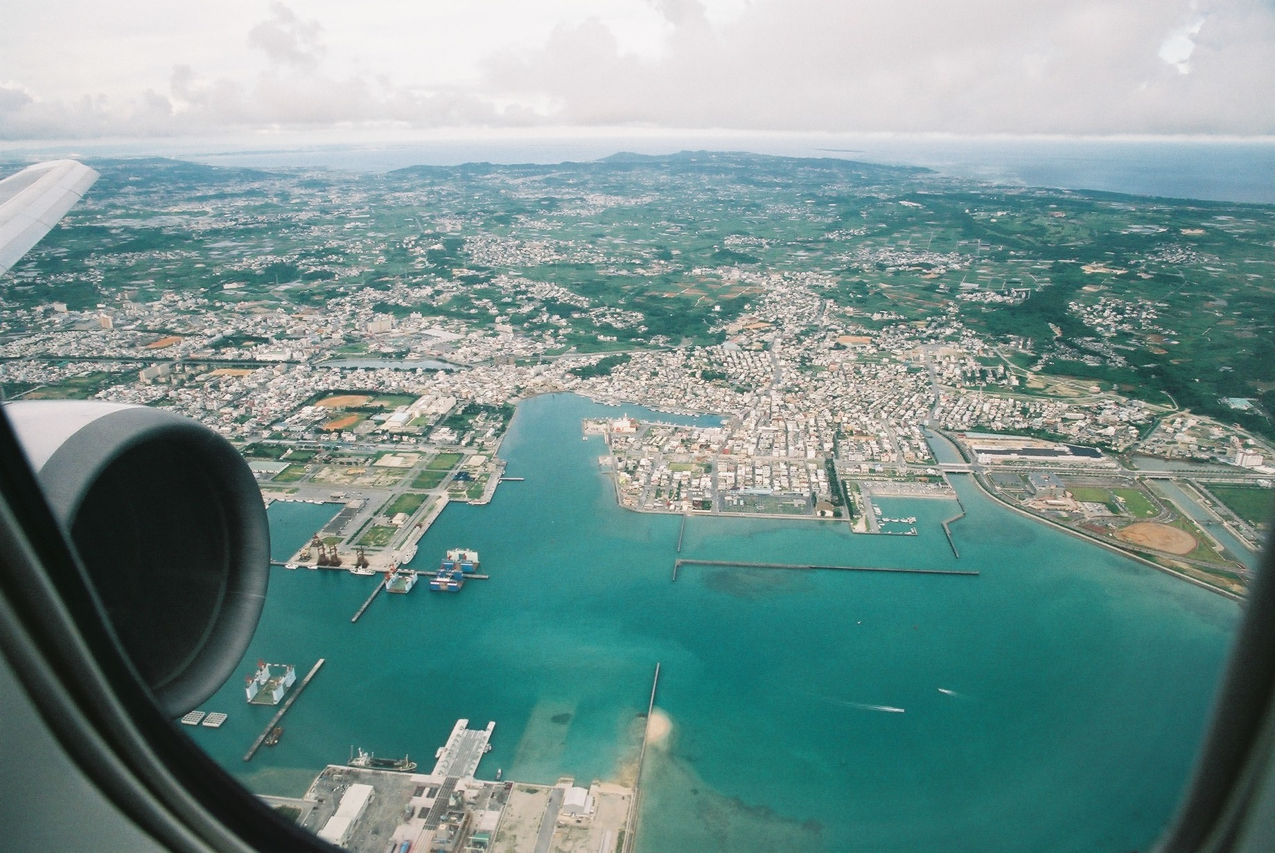 Port of Itoman, Okinawa, viewed from an airplane.